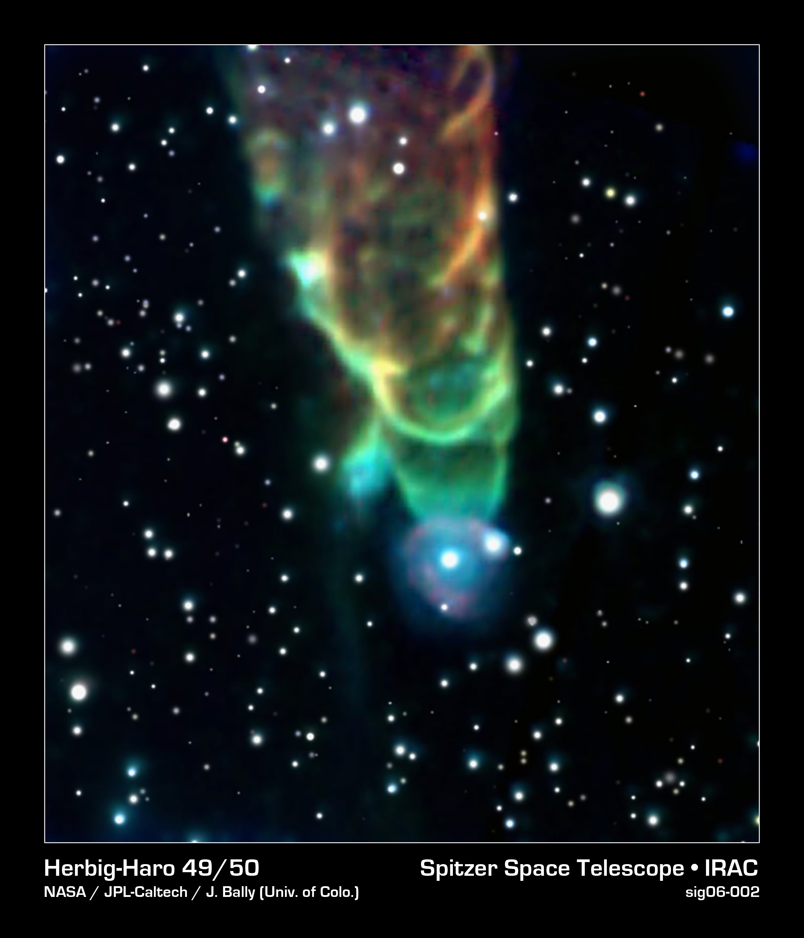 This "tornado," designated Herbig-Haro 49/50, is shaped by a cosmic jet packing a powerful punch as it plows through clouds of interstellar gas and dust. The tornado-like feature is actually a shock front created by a jet of material flowing downward through the field of view. A still-forming star located off the upper edge of the image generates this outflow. The jet slams into neighboring dust clouds at a speed of more than 100 miles per second, heating the dust to incandescence and causing it to glow with infrared light detectable by Spitzer. The triangular shape results from the wake created by the jet's motion, similar to the wake behind a speeding boat. The scientists could only speculate about the source of the spiral appearance. Magnetic fields throughout the region might have shaped the object. Alternatively, the shock might have developed instabilities as it plowed into surrounding material, creating eddies that give the "tornado" its distinctive appearance. Astronomers believe that the blue color at the tornado's tip results from high molecular excitation at the head of the shock. Those high excitation levels generate more short-wavelength emission, shown as blue in this color-coded image. Molecular excitation levels decrease away from the head of the bow shock; therefore the emission is at longer wavelengths, colored red here. The star at the tip of the tornado, which appears to be surrounded by a faint halo, might be a chance superposition along our line of sight. However, the star instead might be physically associated with the tornado. In that case, the halo likely is due to the outflow running into circumstellar material. HH 49/50 is located in the Chamaeleon I star-forming complex, a region containing more than 100 young stars. Most of the new stars are smaller than the sun, although some are more massive. Visible-light observations have found a number of outflows in the region, however most of those outflows have no infrared counterpart.